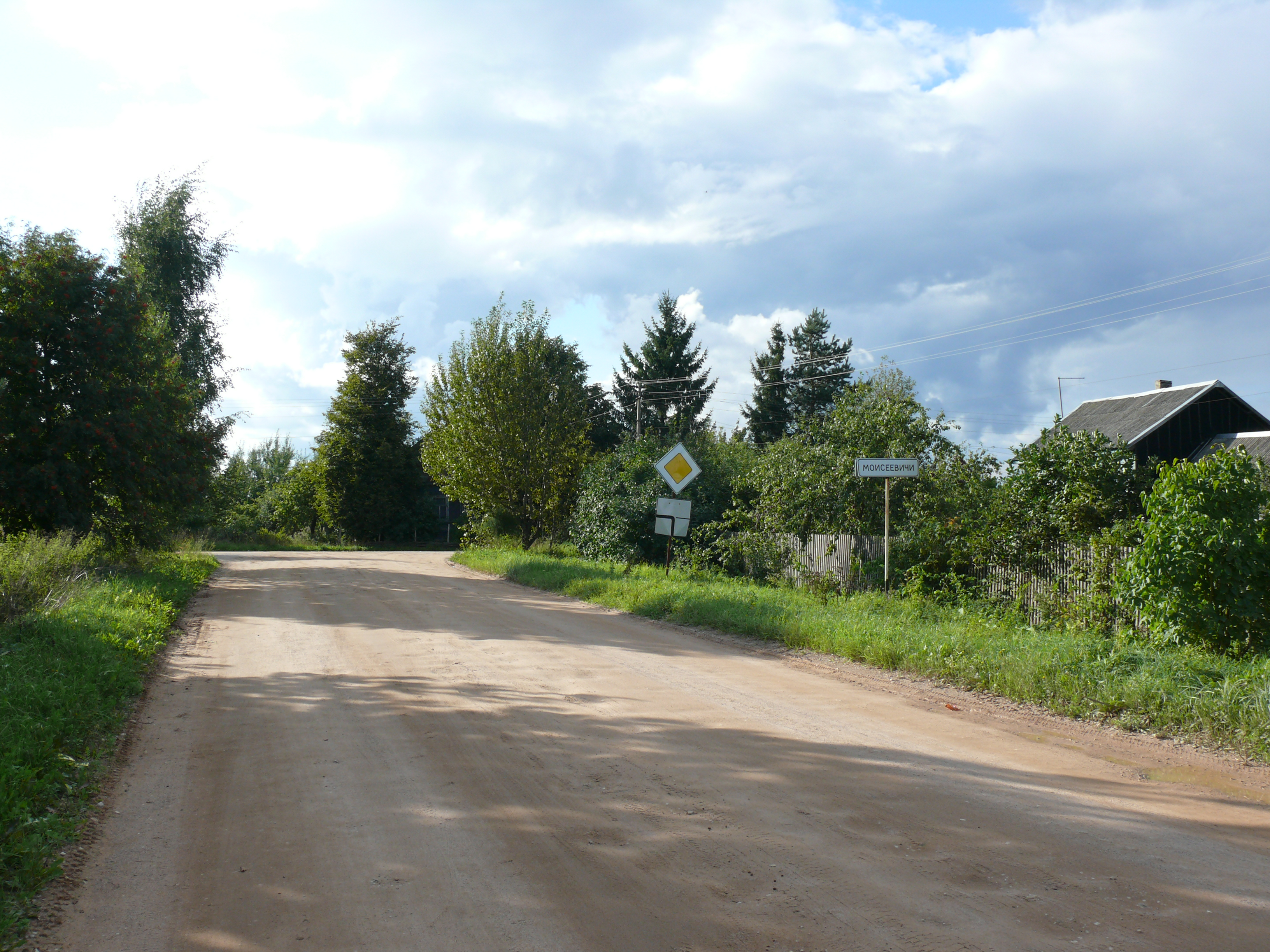 Moiseevichi village. Novgorodsky district, Novgorod oblast, Russia